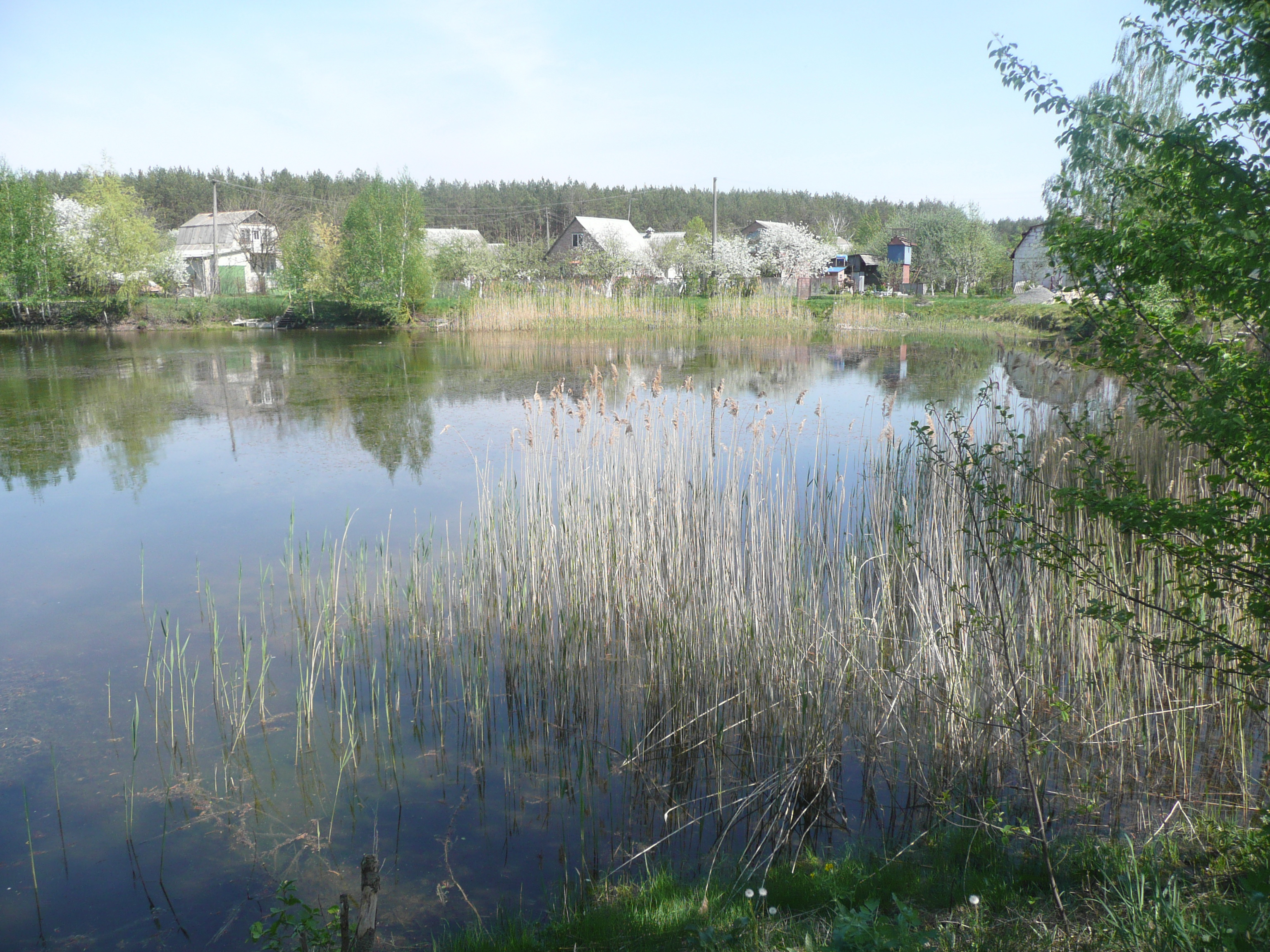 Ozershchyna village, Borodianka Raion, Kyiv Oblast, Ukraine